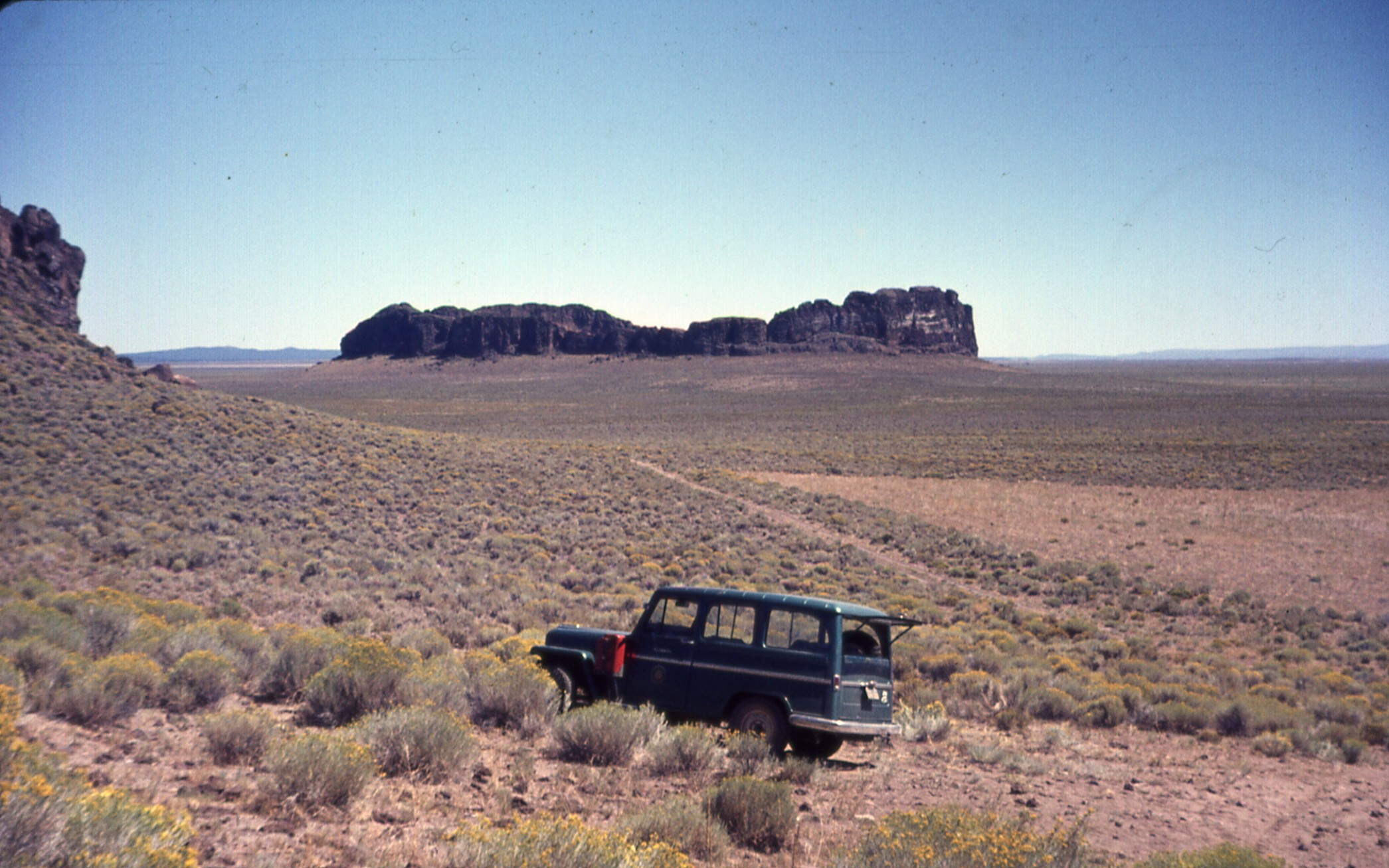 Fort Rock and part of its basin, with a University of Oregon vehicle in the foreground, Lake County, Oregon, United States